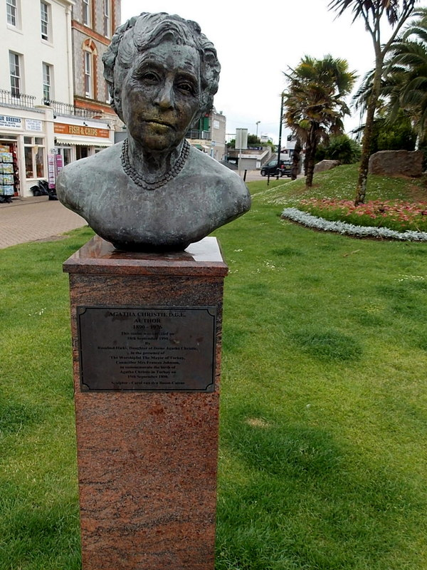 Agatha Christie statue in Torquay